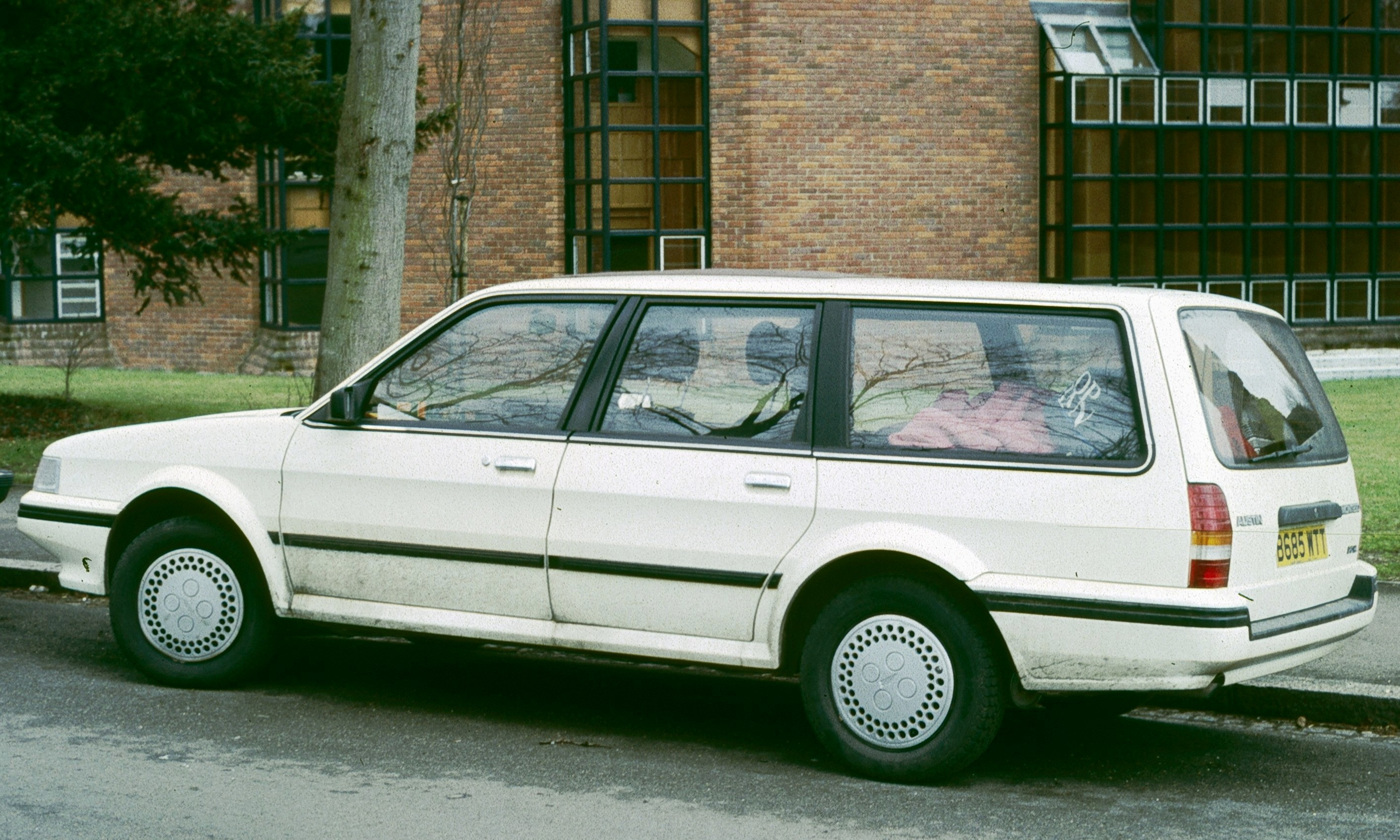 Austin Montego Break